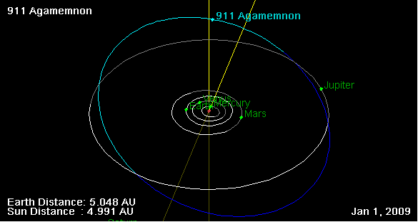 911 Agamemnon orbit, and his position on 01 Jan 2009 (NASA Orbit Viewer applet)